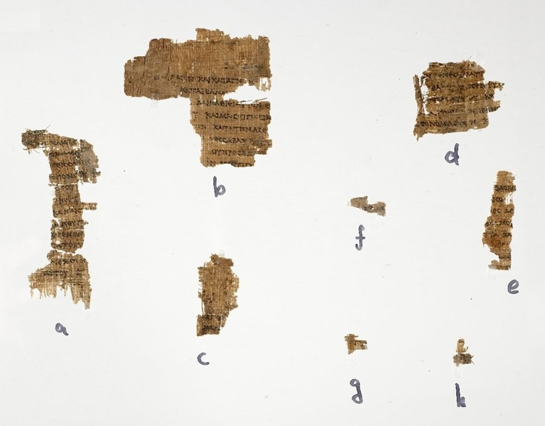 manuscript of Septuagint with 8 fragments of the Book of Deuteronomy